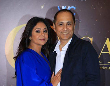 Shefali Shah and Vipul Amrutlal Shah at the Critics Choice Shorts & Series Awards 2019